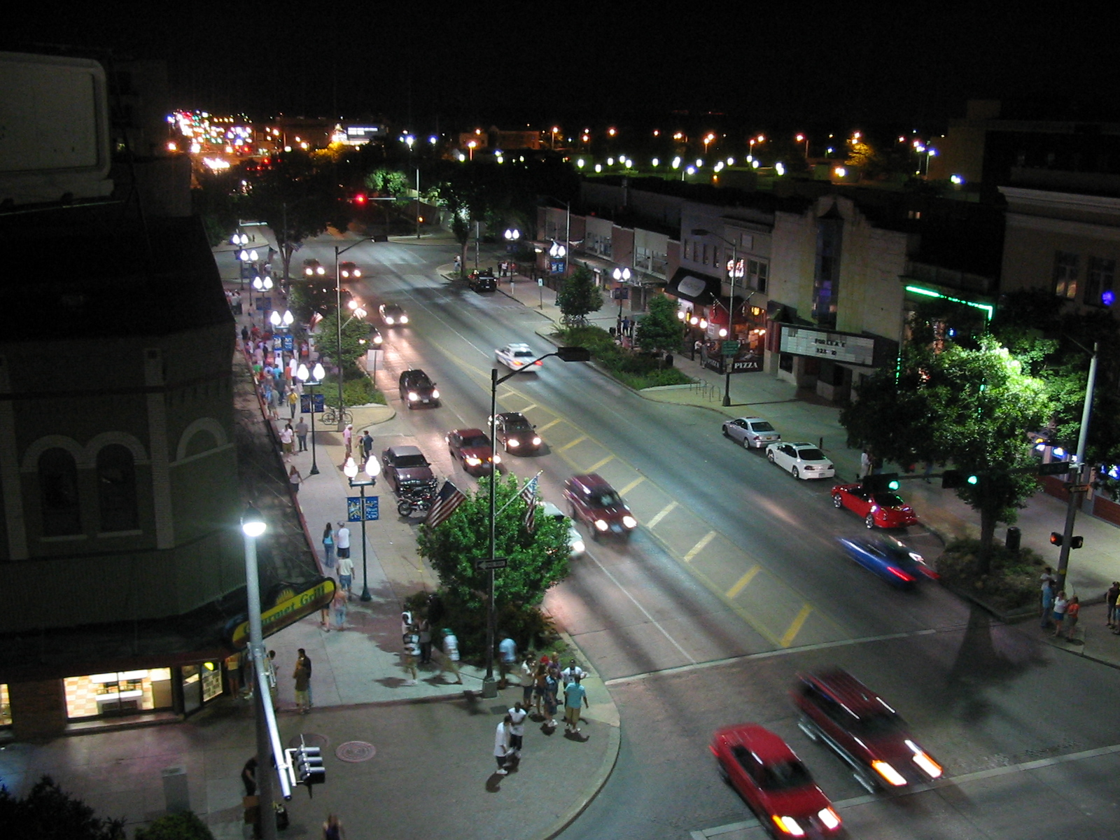 'O' Street in downtown Lincoln, NE. Taken from the top of the parking garage on the northwest corner of 14th and 'O' Street, facing east towards 15th.